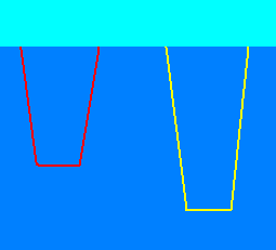 Reverse dive profile in yellow showing the first dive in red